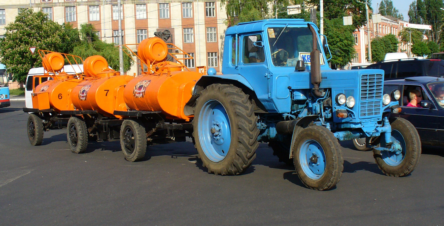 Kvass tractor MTZ-80. Ukraine, Vinnytsya)